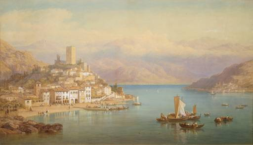 thumbnail image of painting